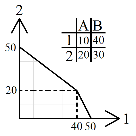 comparative advantage in economics